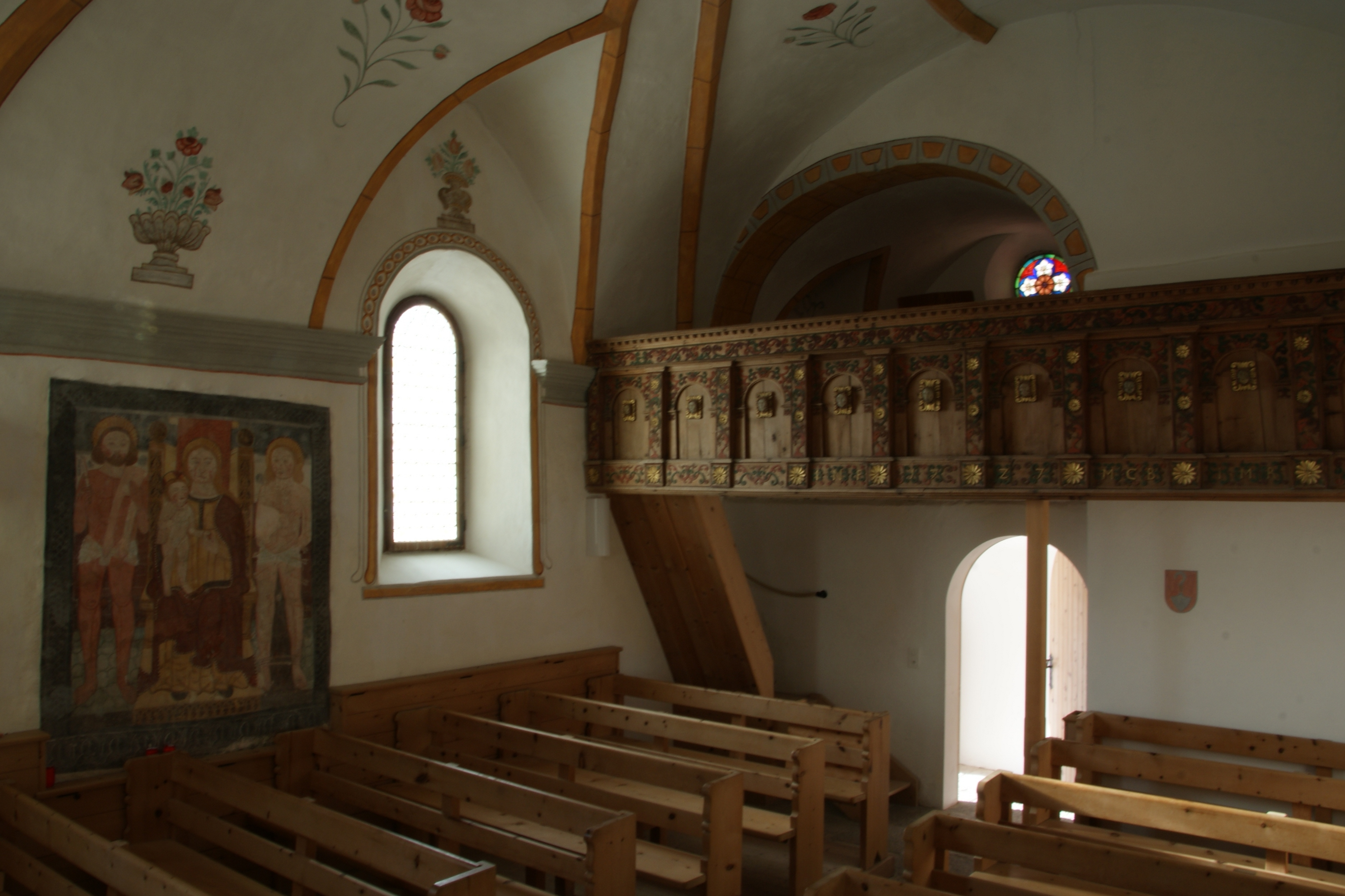 Vnà, Canton Graubünden, Switzerland